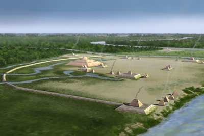 An artists conception of the Troyville Earthworks (16 CT 7), the type site for the Troyville culture in Catahoula Parish, Louisiana in the town of Jonesville and was inhabited from 100 BCE to 700 CE. It once had the tallest mound in Louisiana (and second tallest in the US) at 82 feet in height. All rights held by the artist, Herb Roe © 2017. #herbroe #troyville #troyvilleculture #ancientamerica #americanarchaeology #illustration